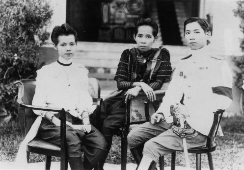 (from left): Princess Valaya Alongkorn, Queen Savang Vadhana and Prince Mahidol Adulyadej in Funeral of Chulalongkorn